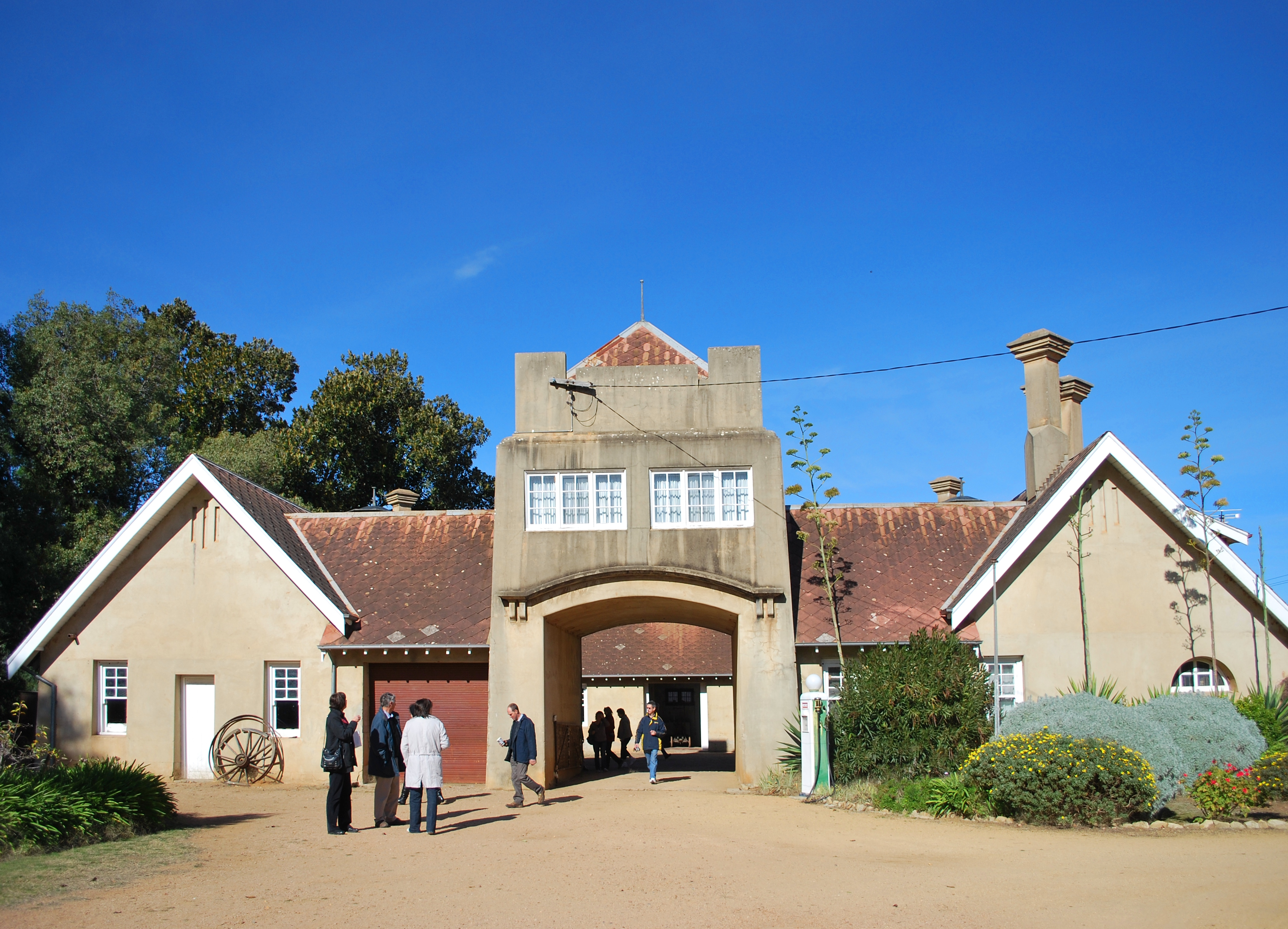 Stables at Iandra Castle, near Greenethorpe, New South Wales